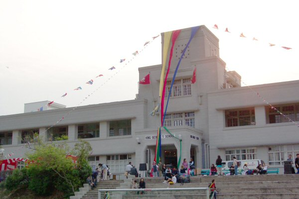 King George V School Peel Block - Spring Fair March 2004 (c) 2004 Jason Pang